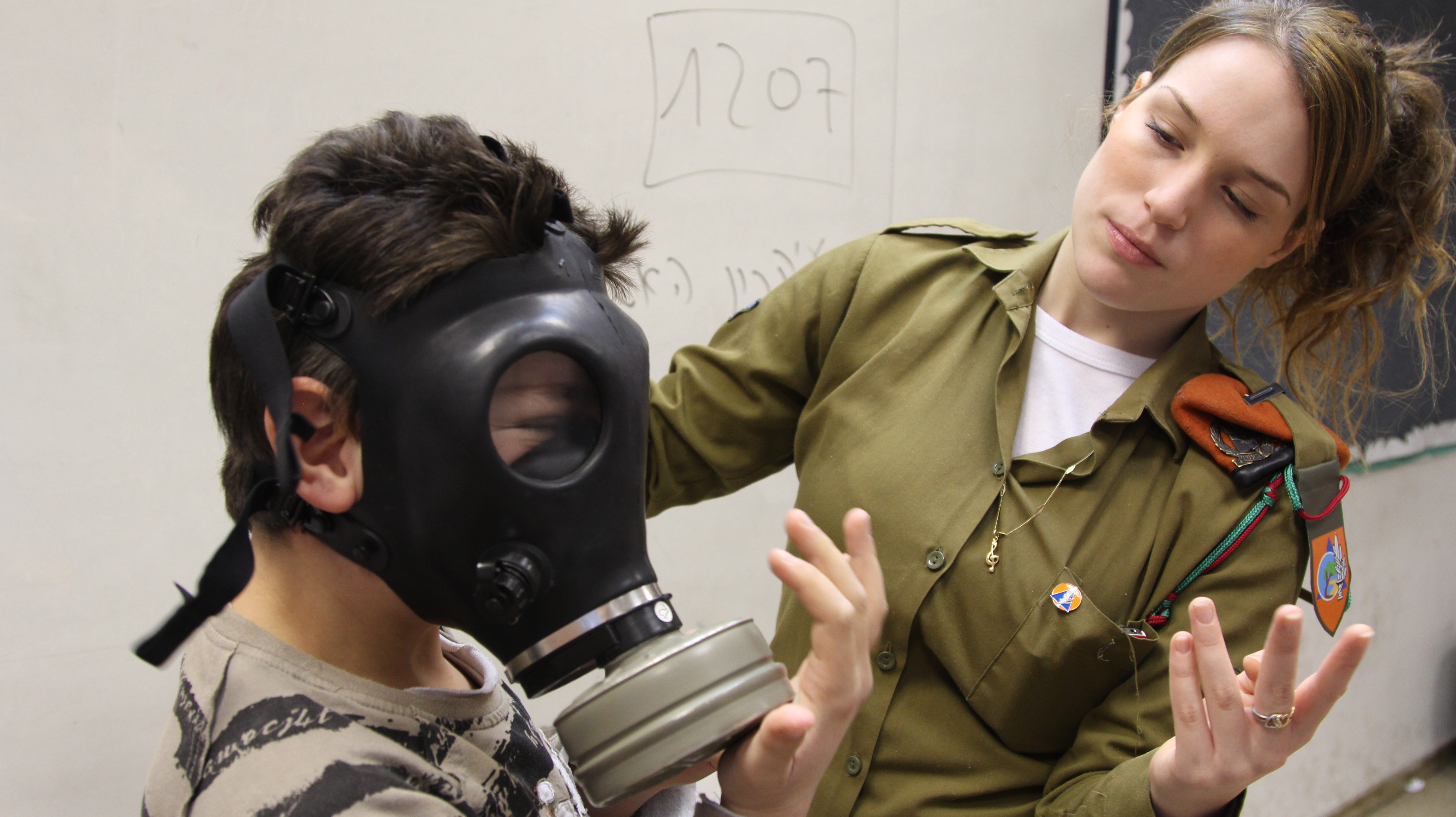 January 19, 2012 Every day, Israeli citizens must cope with the potential daily threat of rocket fire from the Gaza Strip. Just last year, in 2011, Hamas fired 627 rockets and mortars from Gaza into Israel. In order to ensure security for all Israeli civilians, the IDF dispatches Emergency Situations Instructors to day schools, instructing the children how to protect themselves in case of emergency. In the picture is Cpl. Noy Eisen, teaching the children of Holon on proper procedures in emergency situations that can arise in Israel. Watch the IDF Emergency Instructor in action: Preparing the Next Generation: The Work of an IDF Emergency Instructor The Israel Defense Forces Facebook The Israel Defense Forces blog Follow us on Twitter